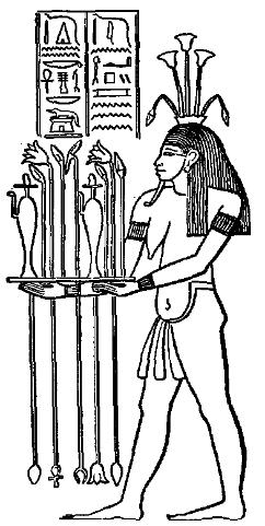 An illustration from the Encyclopaedia Biblica, a 1903 publication which is now in the public domain. For article "Nile". Image of Hapi, the Nile-deity.